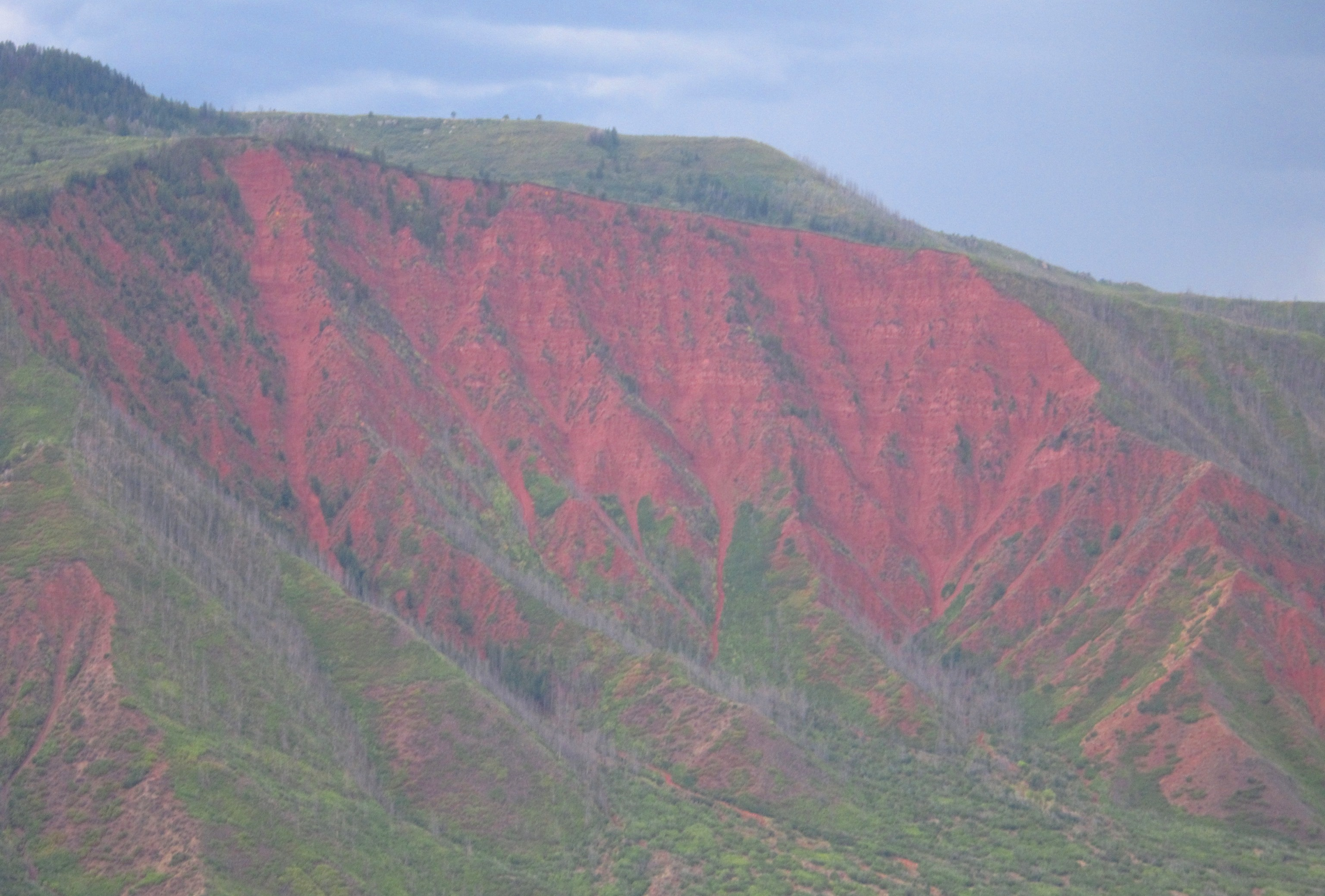 Sandstone Cliffs near Glenwood Springs